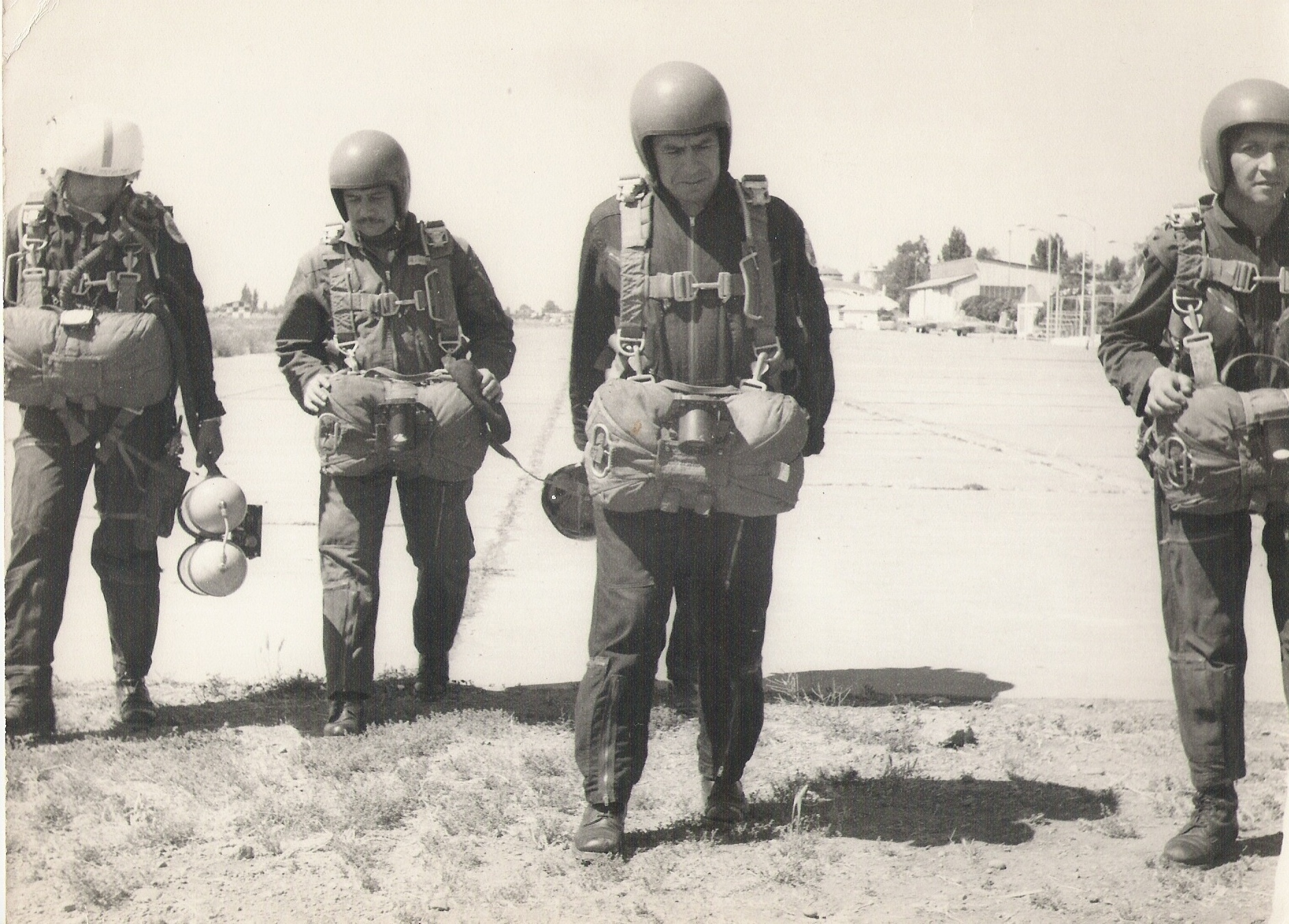 Boinas Azules el 22 de marzo de 1975 antes de realizar el primer salto HALO en Chile.